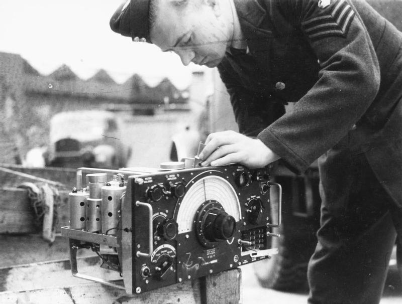 Checking an RAF bomber's R1155 wireless receiver